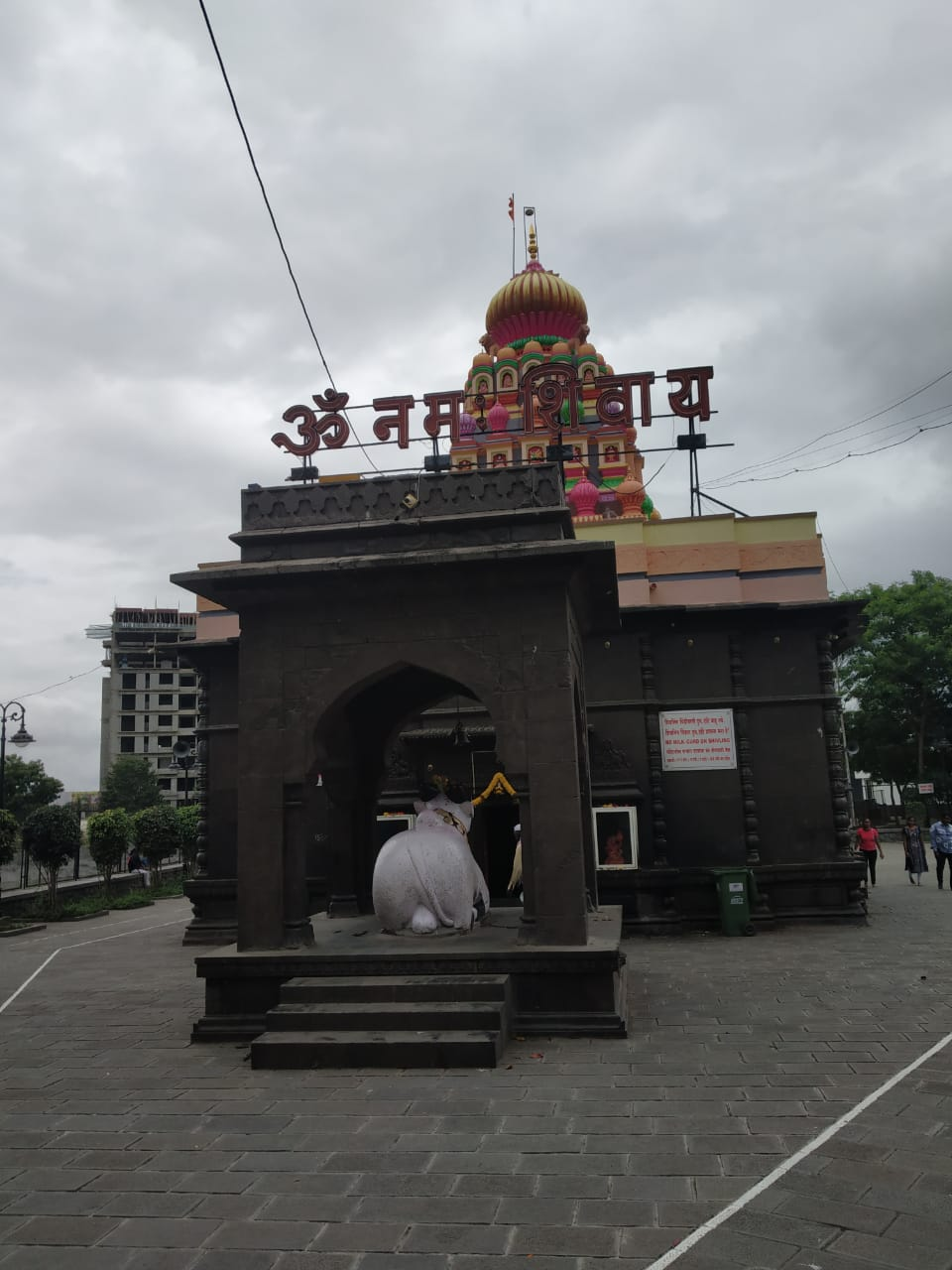 वाघेश्वर मंदिर